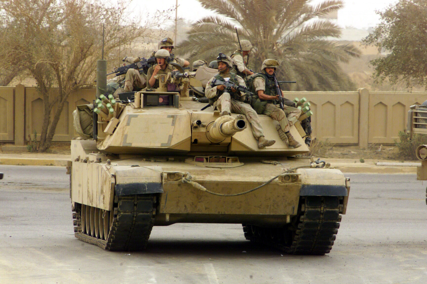 US Marine Corps (USMC) personnel from the 3rd Battalion, 7th Marines catch a ride on a USMC M1A1 Abrams Main Battle Tank (MBT), on the streets of Baghdad, Iraq, during Operation IRAQI FREEDOM.